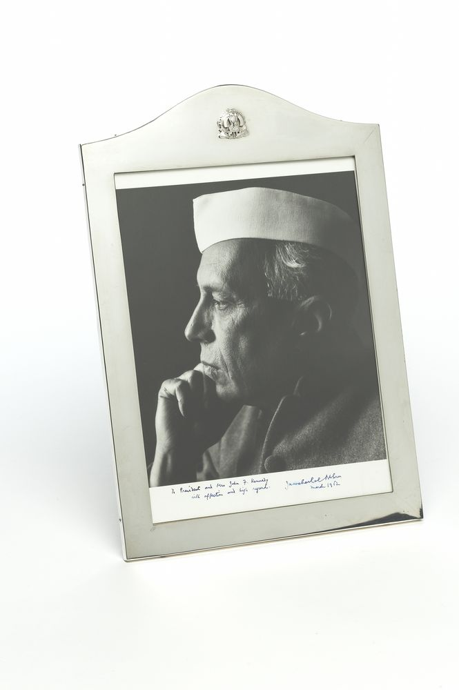 Date(s) of Materials:March 1962 Medium:Photograph, silver Dimensions:Framed: 15" x 10 5/8" Description:Black and white studio portrait photograph of Prime Minister of India Jawaharlal Nehru with his hand raised to his chin (profile view). The photograph is in a silver frame. Gifter:Jawaharlal Nehru, Prime Mininister of India (1947-1964)